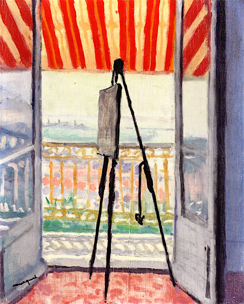 Balcony with Striped Awning Albert Marquet (1945)